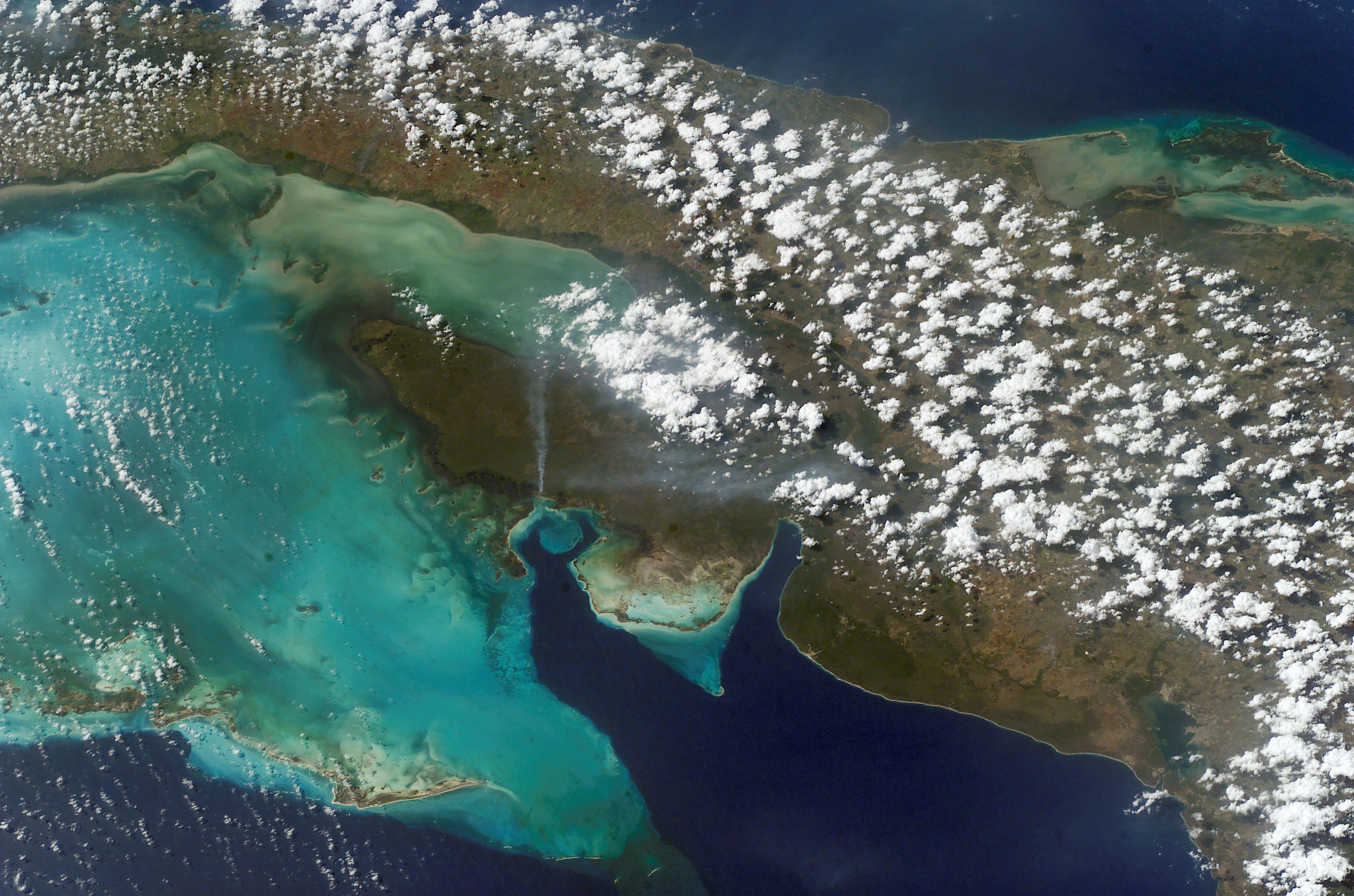 NASA satellite photo of the Zapata Swamp Biosphere Reserve — of Cuba.